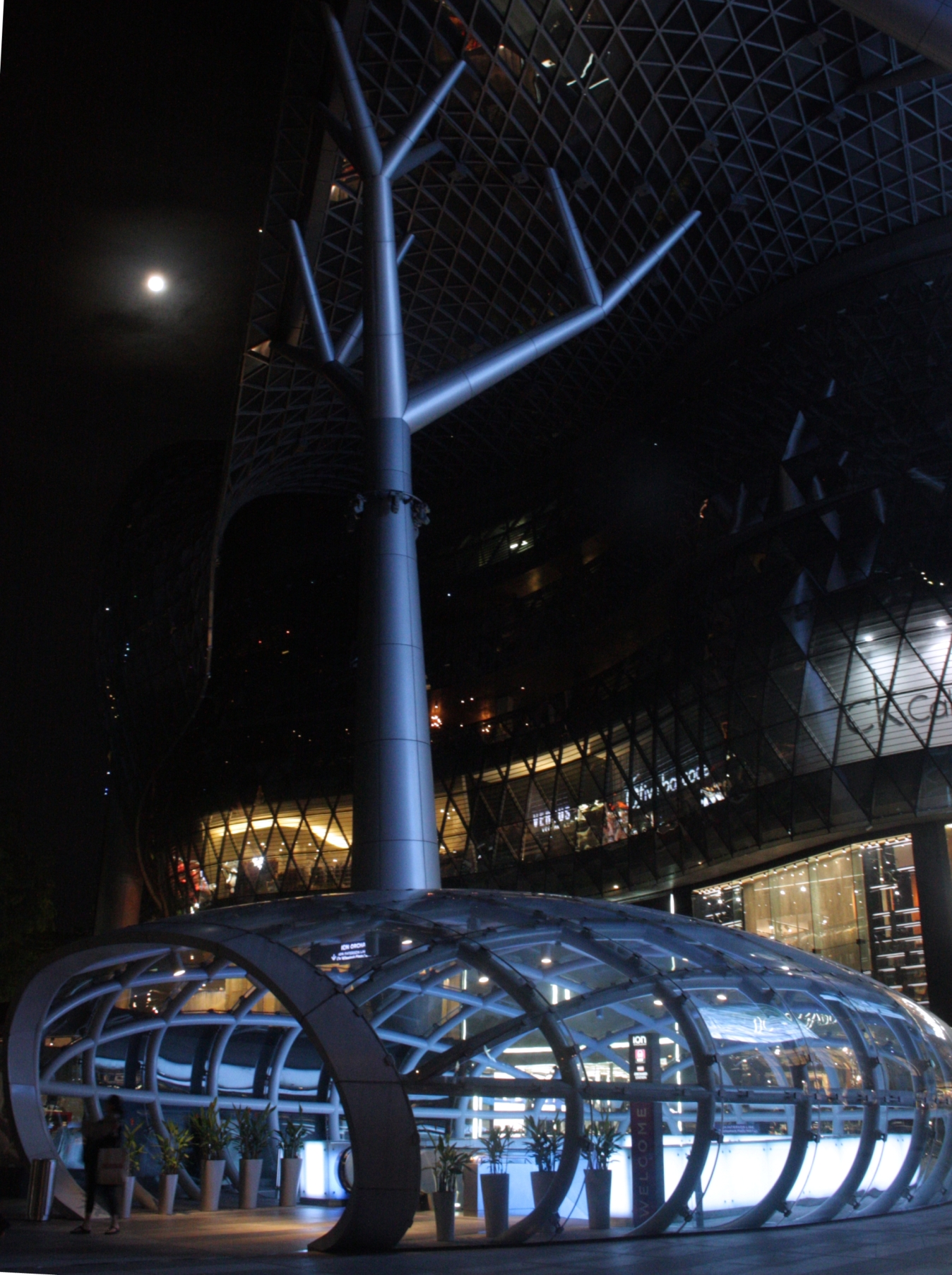 ION Orchard entrance, Singapore at night of Vessak Day, May 2011